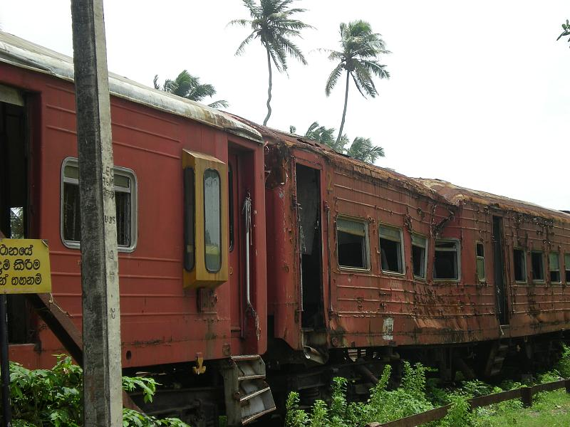 This train was thrown off the tracks and damaged by the tsunami, and has been put back on the tracks for display